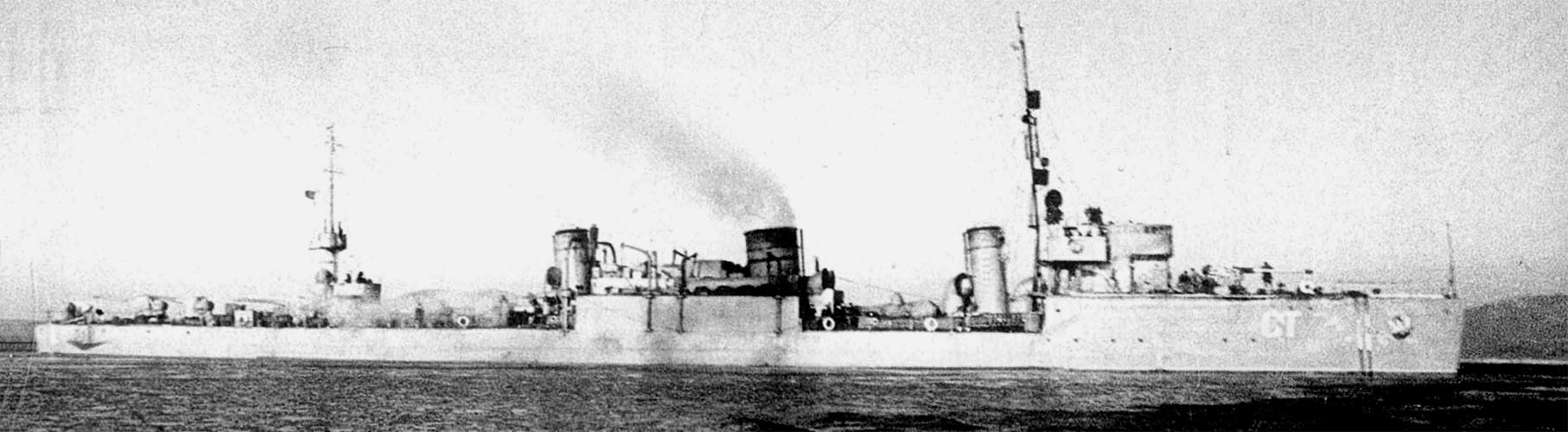 Soviet destroyer Stalin, former Imperial Russian destroyer Samson, Orfey class.